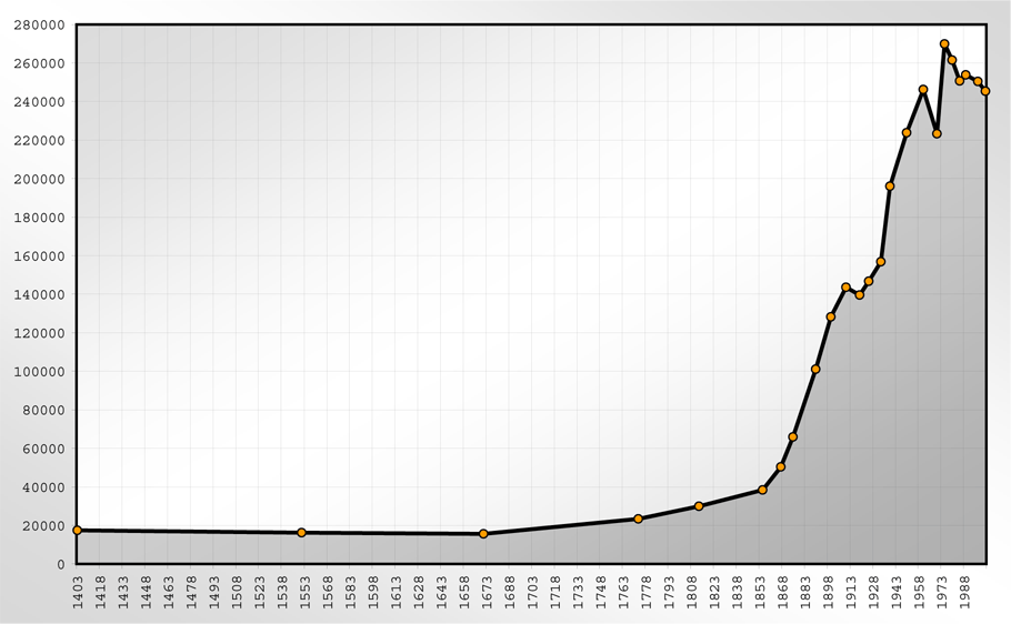 This image shows the population statistics of Braunschweig (Germany).